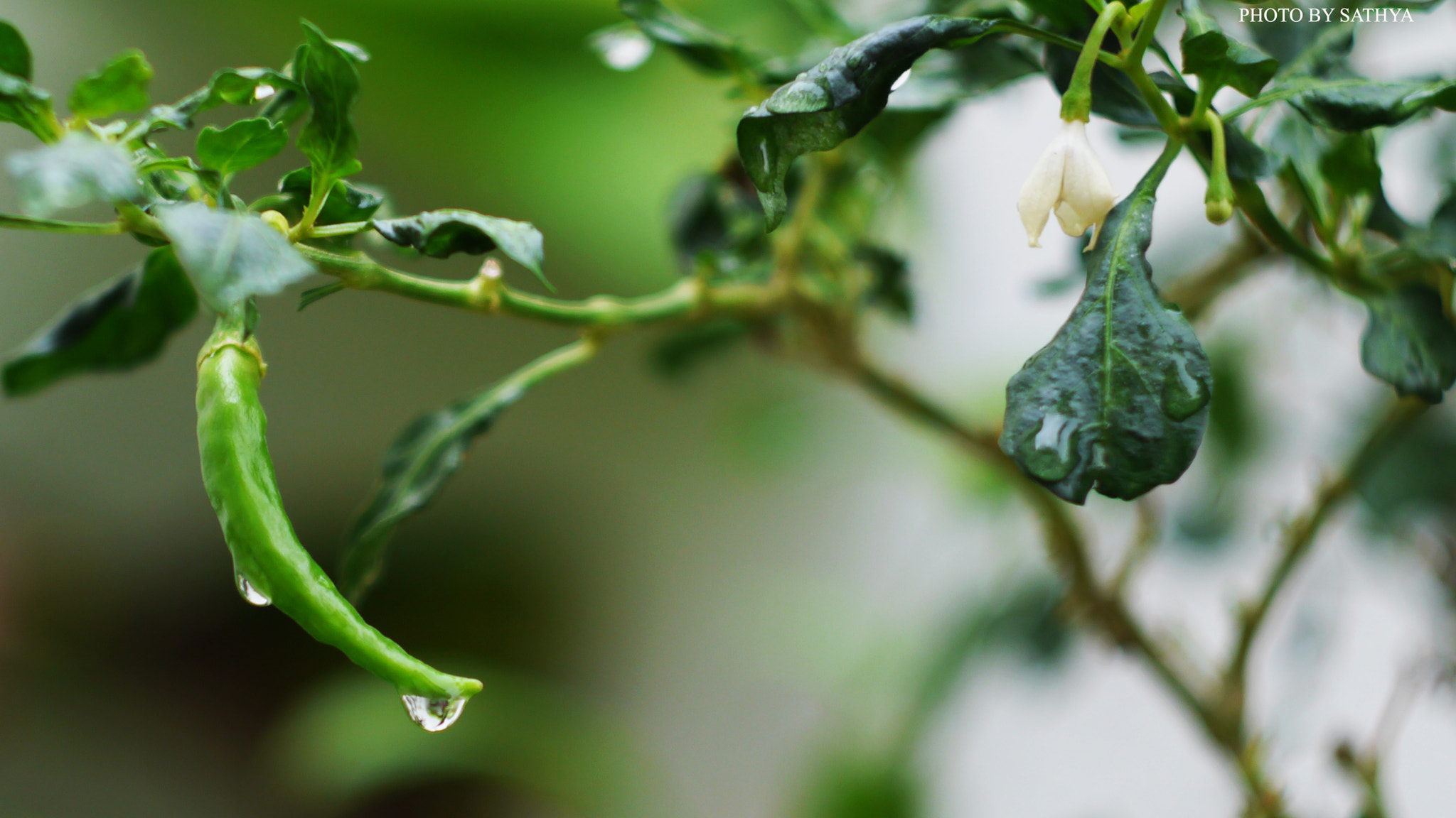 500px provided description: its not water lilly-just water chilli.... -:) [#Chilli]